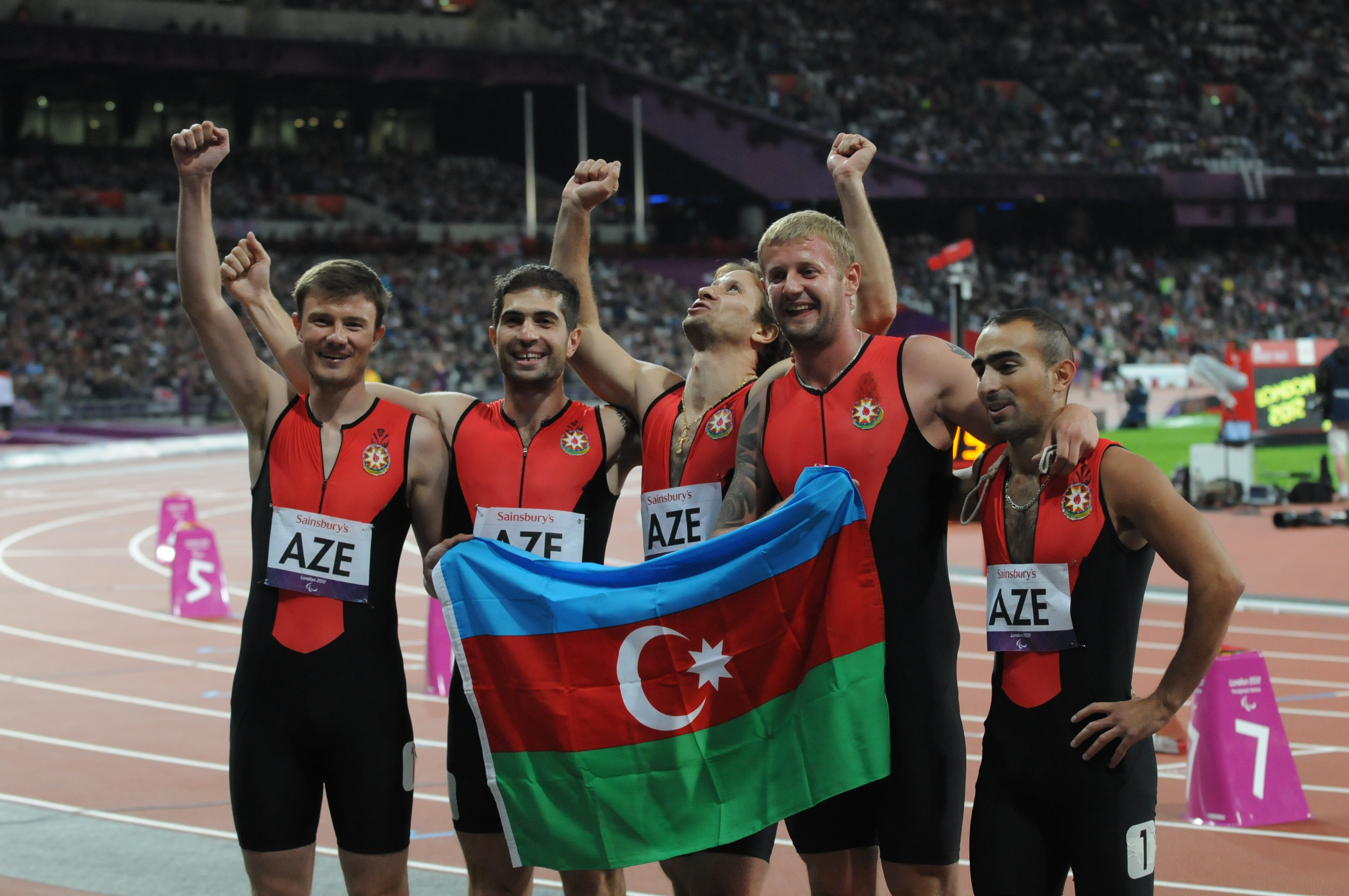 Azerbaijani athletics team at the 2012 Summer Paralympics